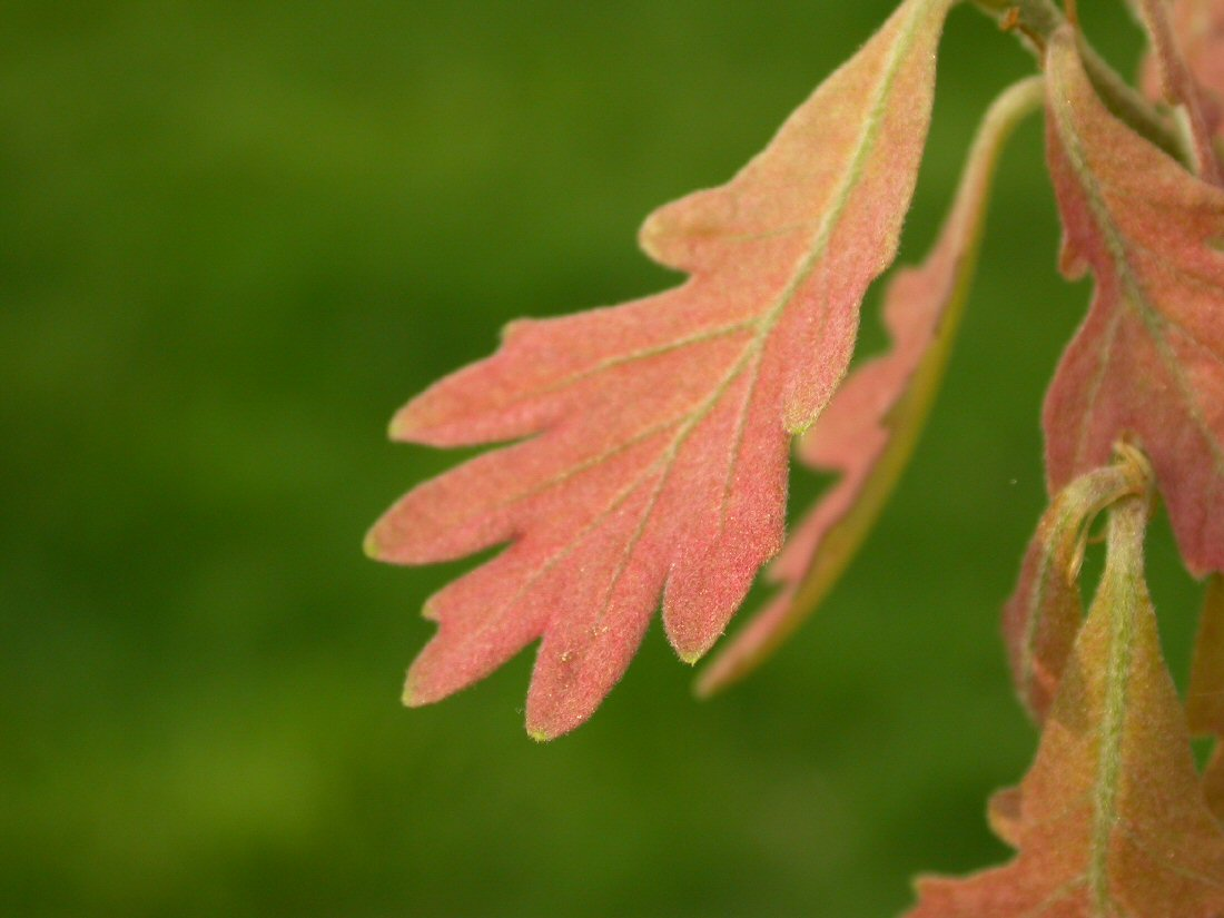 Quercus alba leaves in the spring